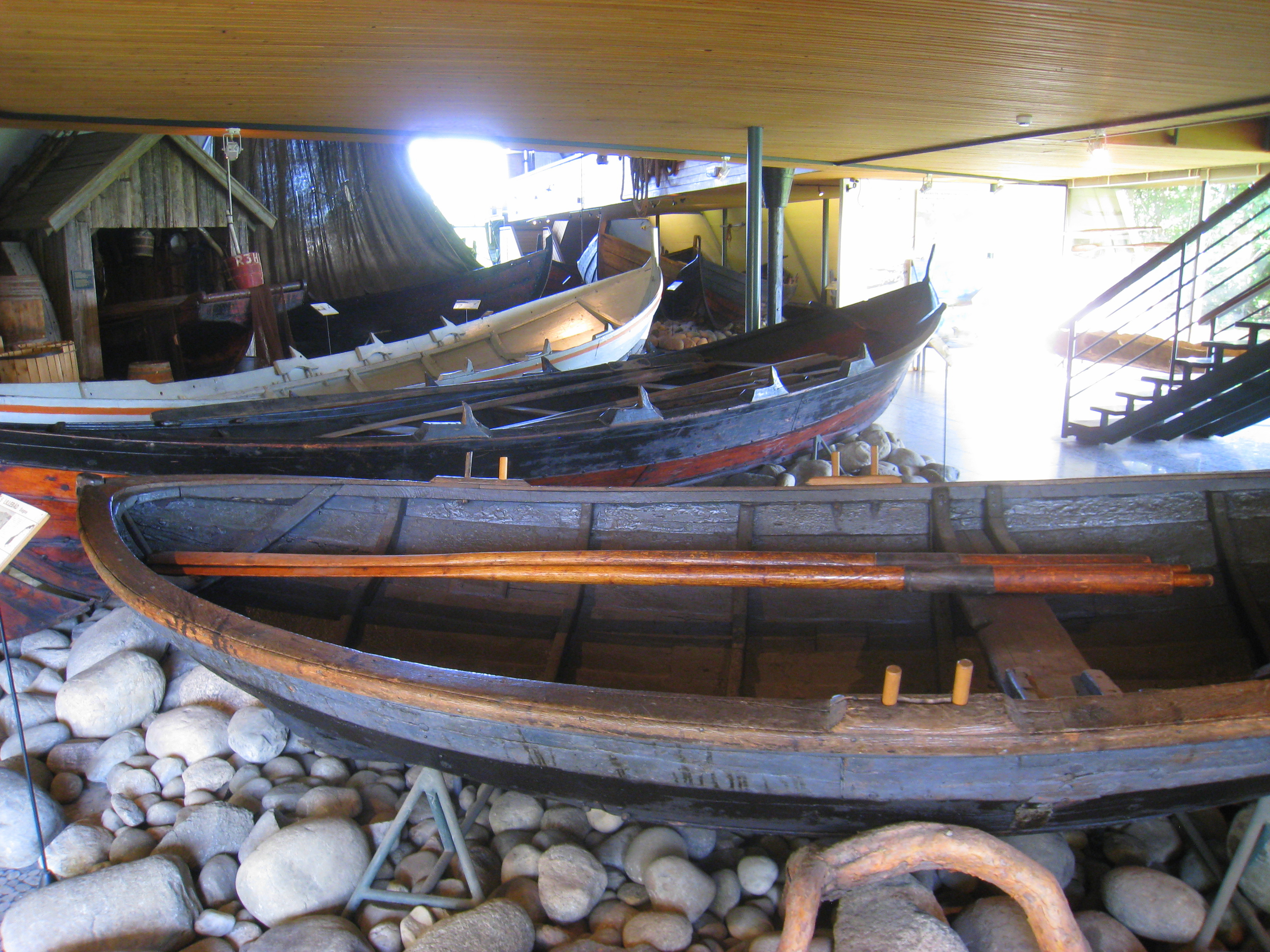 Local boats in the Fram Museum, Oslo, Norway.